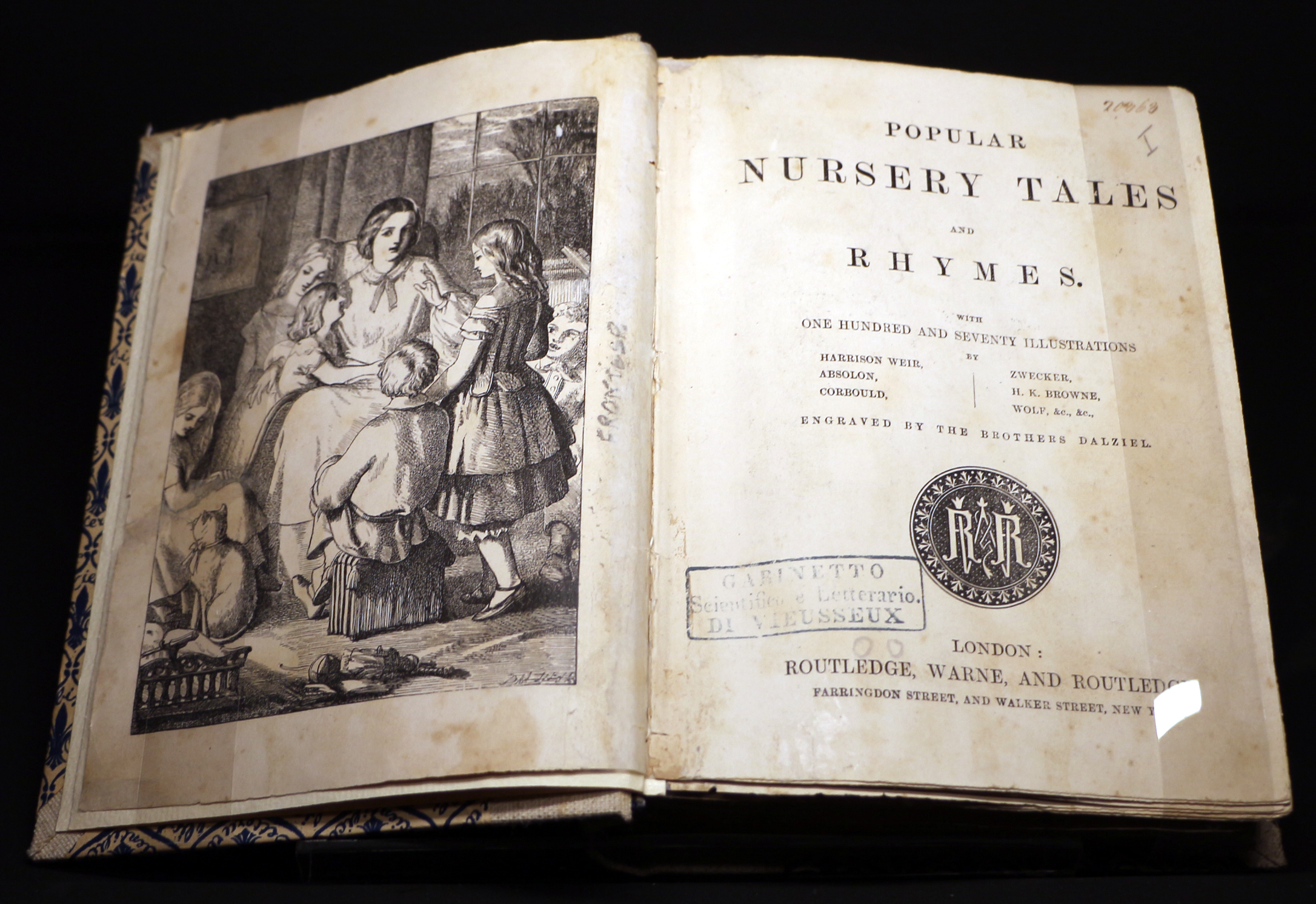 Books in Florence